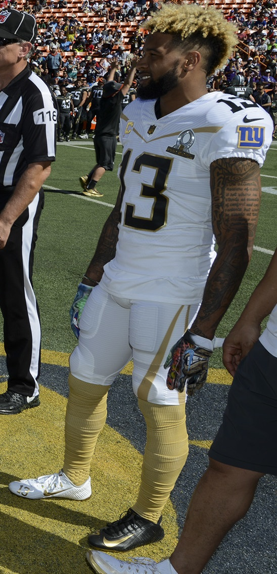 Odell Becjham Jr. participates in the opening coin toss during the 2016 Pro Bowl at Aloha Stadium in Honolulu Jan. 31, 2016. (U.S. Navy photo by Mass Communication Specialist 2nd Class Brian M. Wilbur/Released)